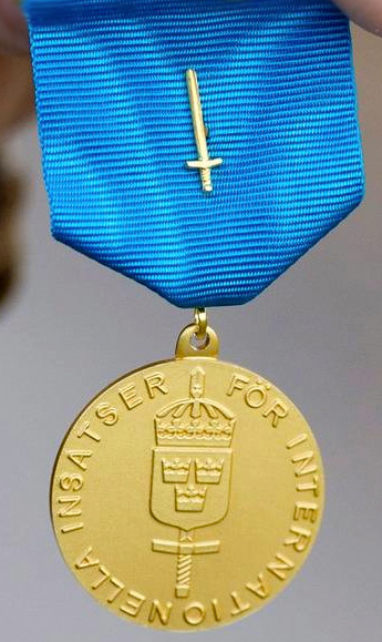 Swedish Armed Forces Reward Medal with Swords for International Service in gold